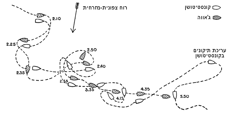 Constitution-Java battle plan